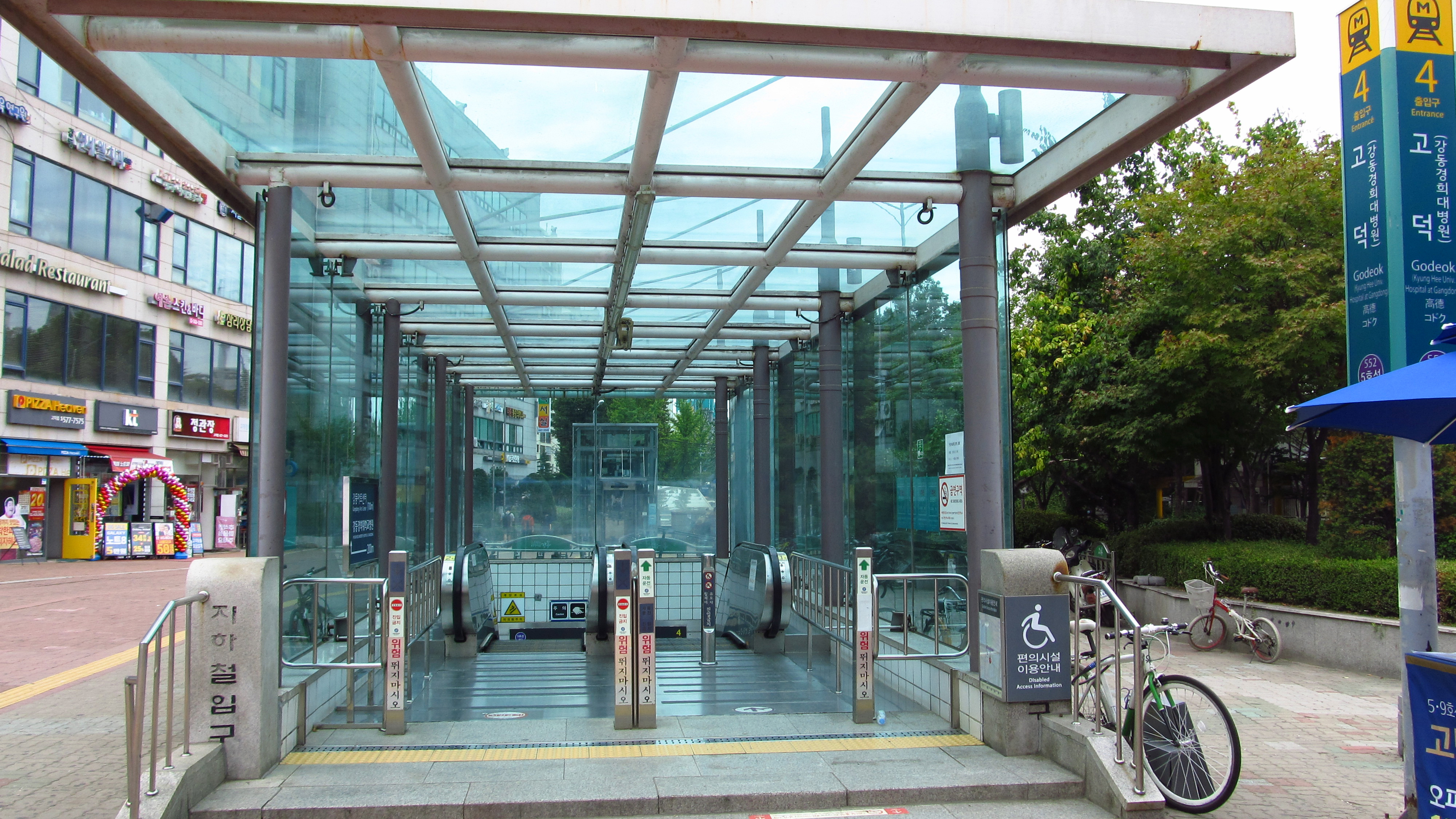 The no.4 entrance to Godeok Station on the Seoul Metro Line 5 in Gangdong-gu, Seoul, Republic of Korea(South Korea)